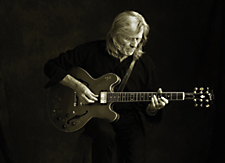 Henry McCullough during the recording sessions of Poor Man's Moon (2008).